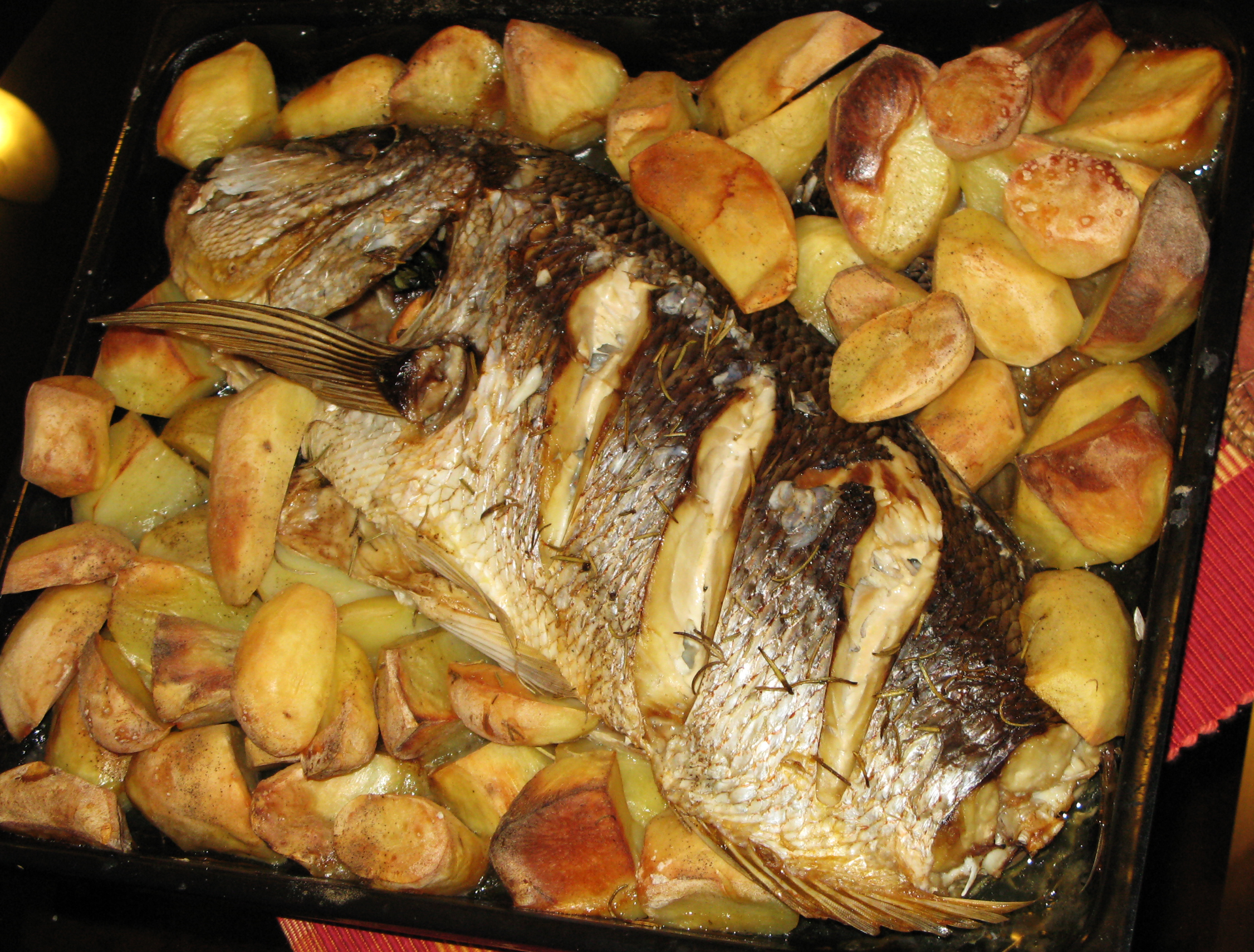 Grilled Adriatic sea common dentex with potatoes.